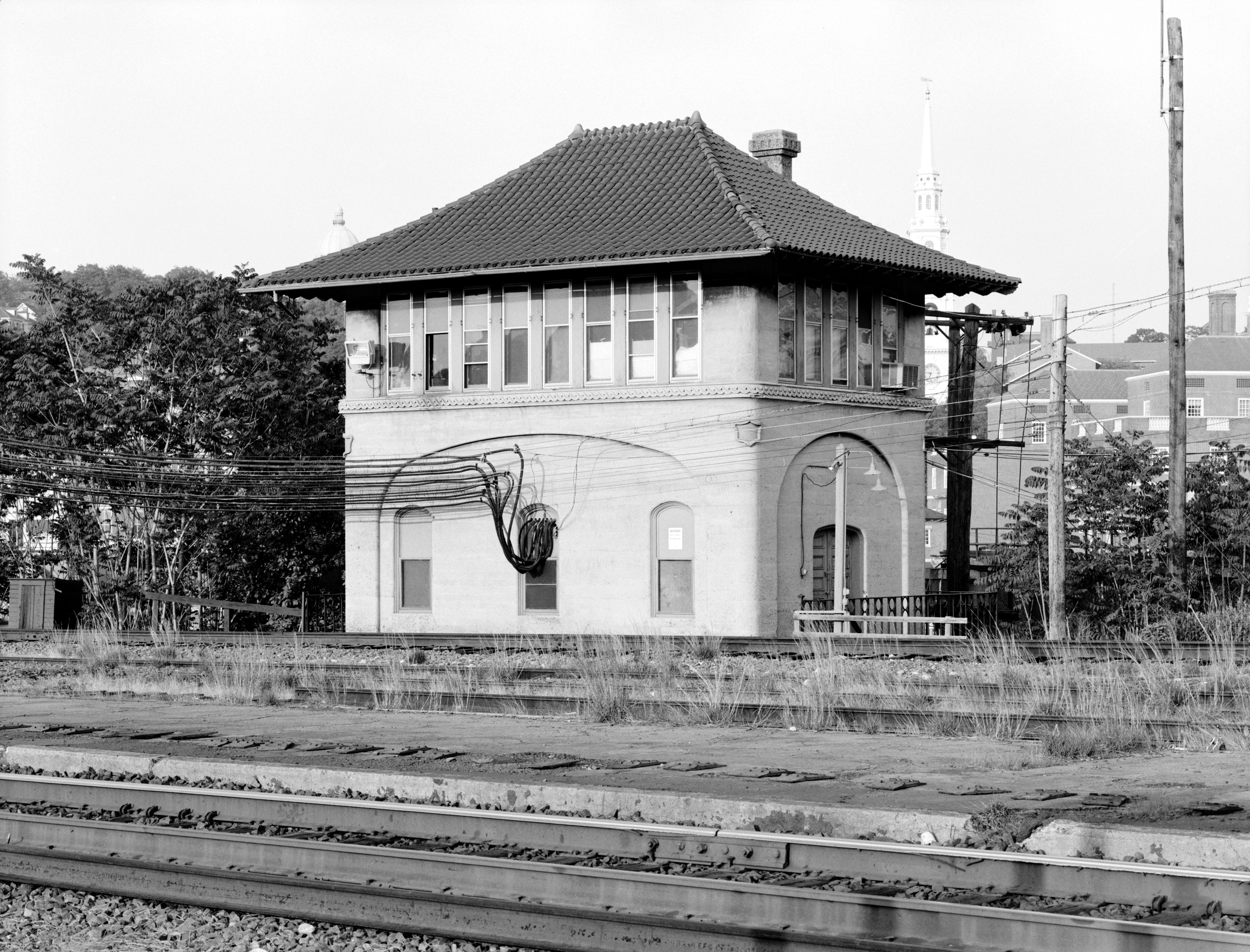 View of south and west sides of the Promenade Street Interlocking Tower, Providence, Rhode Island. Built 1909 by the New York, New Haven and Hartford Railroad. Later operated by Penn Central and Amtrak. Tower closed in 1986. Cropped photo.